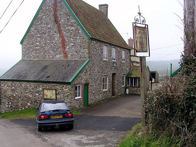 Luppitt Inn An inn which is more like someone's front room.